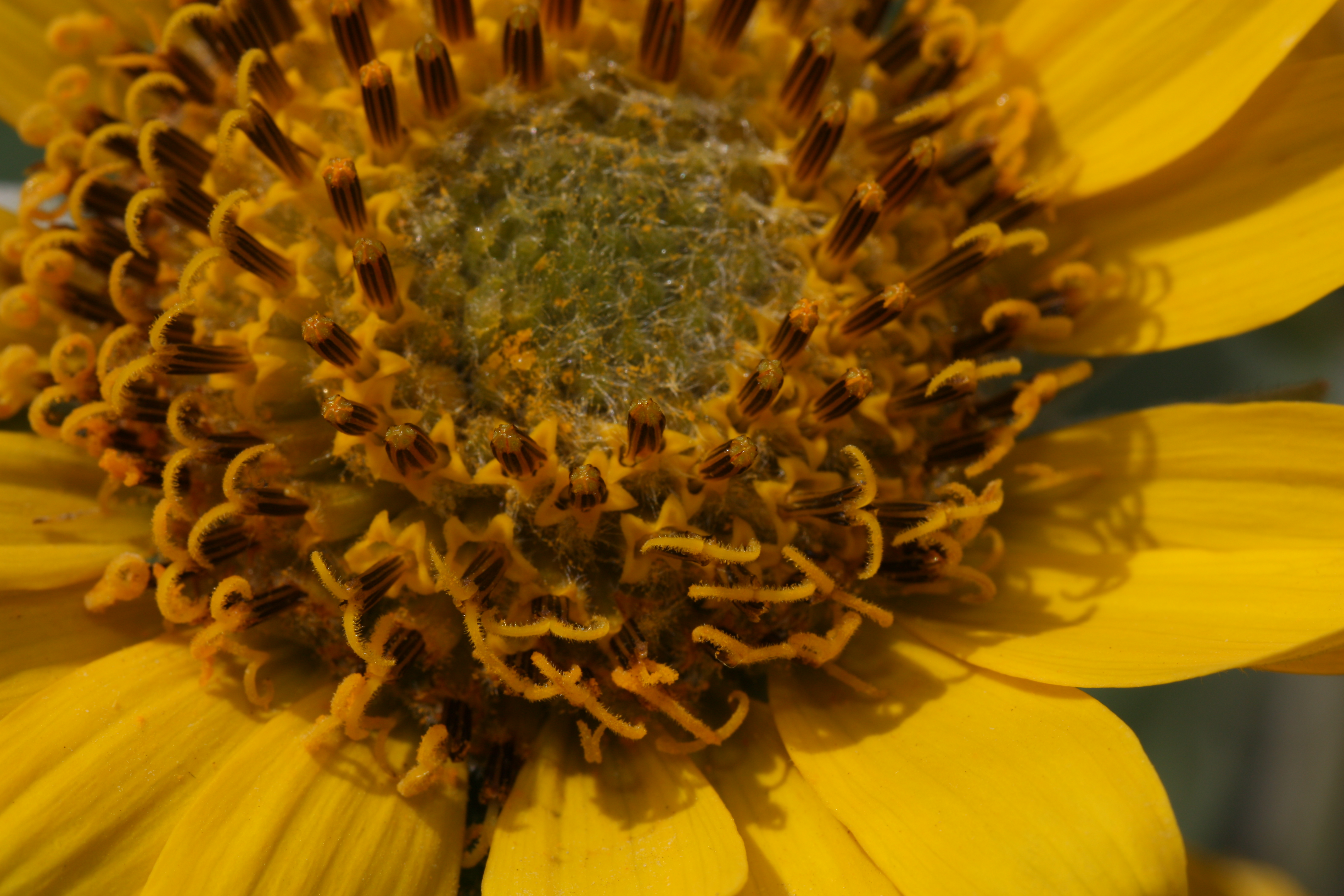 Deltoid Balsamroot, Puget Balsamroot Viewpoint location: McCall Point Trail, Tom McCall Preserve Viewpoint elevation: 488 meter (1599 ft) Location source: Garmin GPSmap 60CSx Location Datum: WGS84